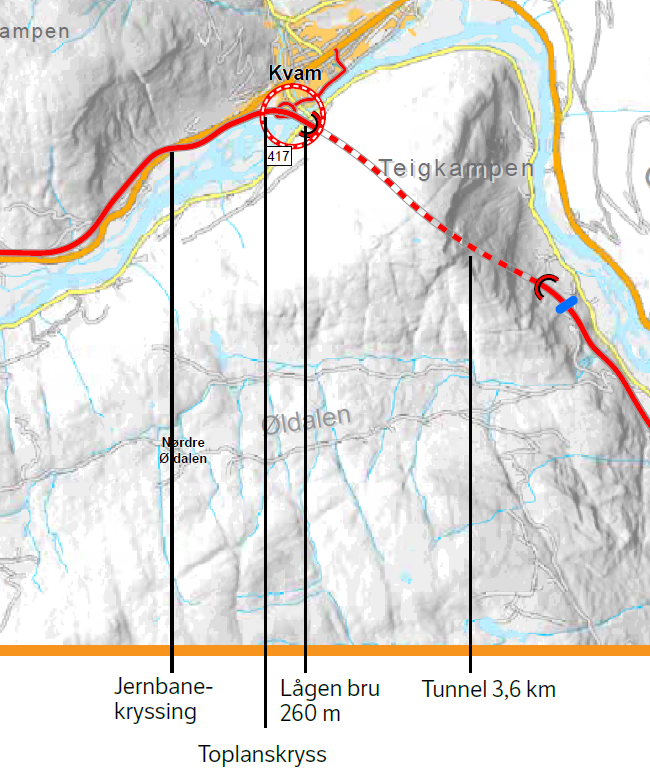 Plan for new E6 around Kvam